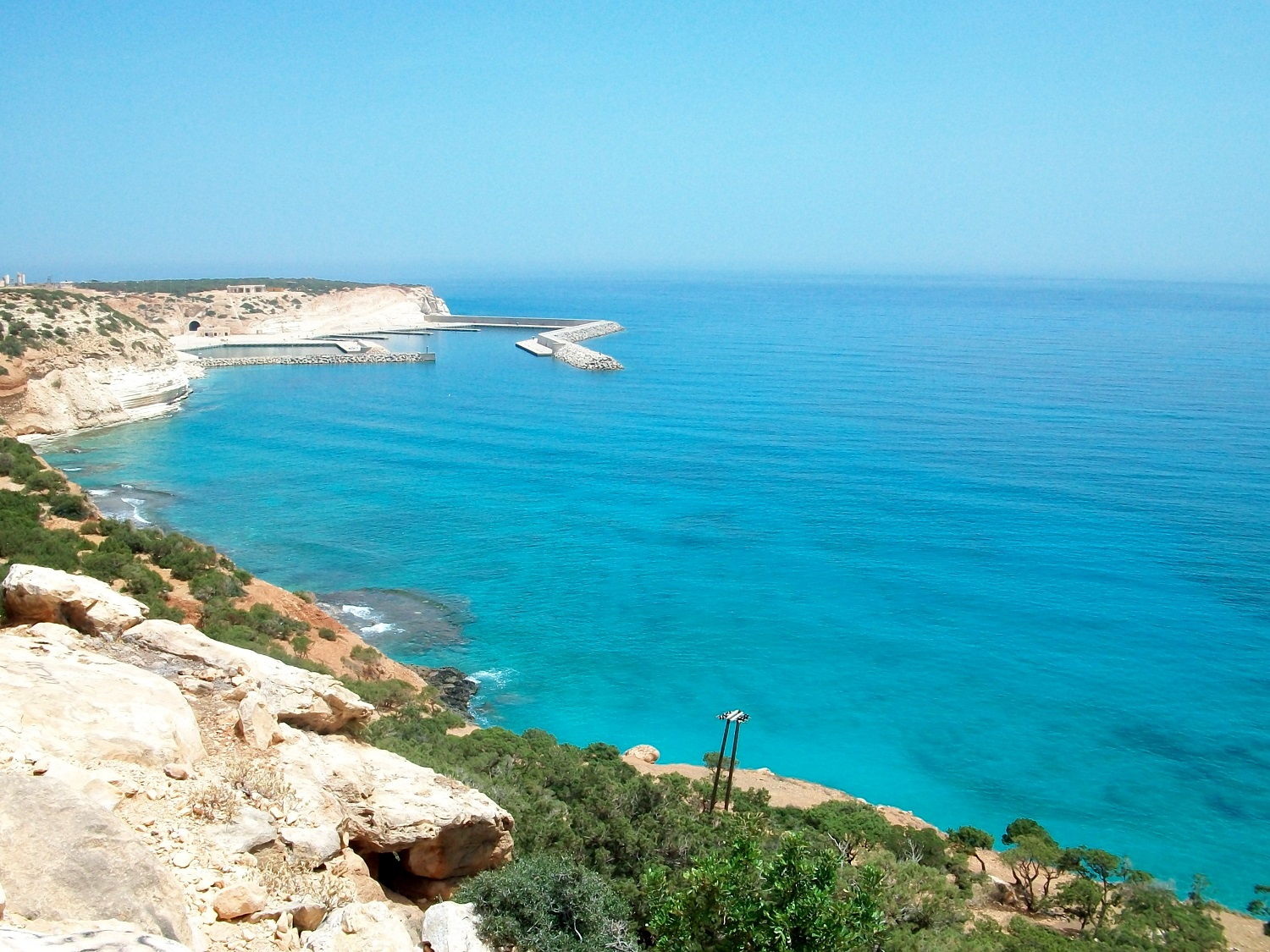 Ras al Helal harbour in Cyrenaica, Libya